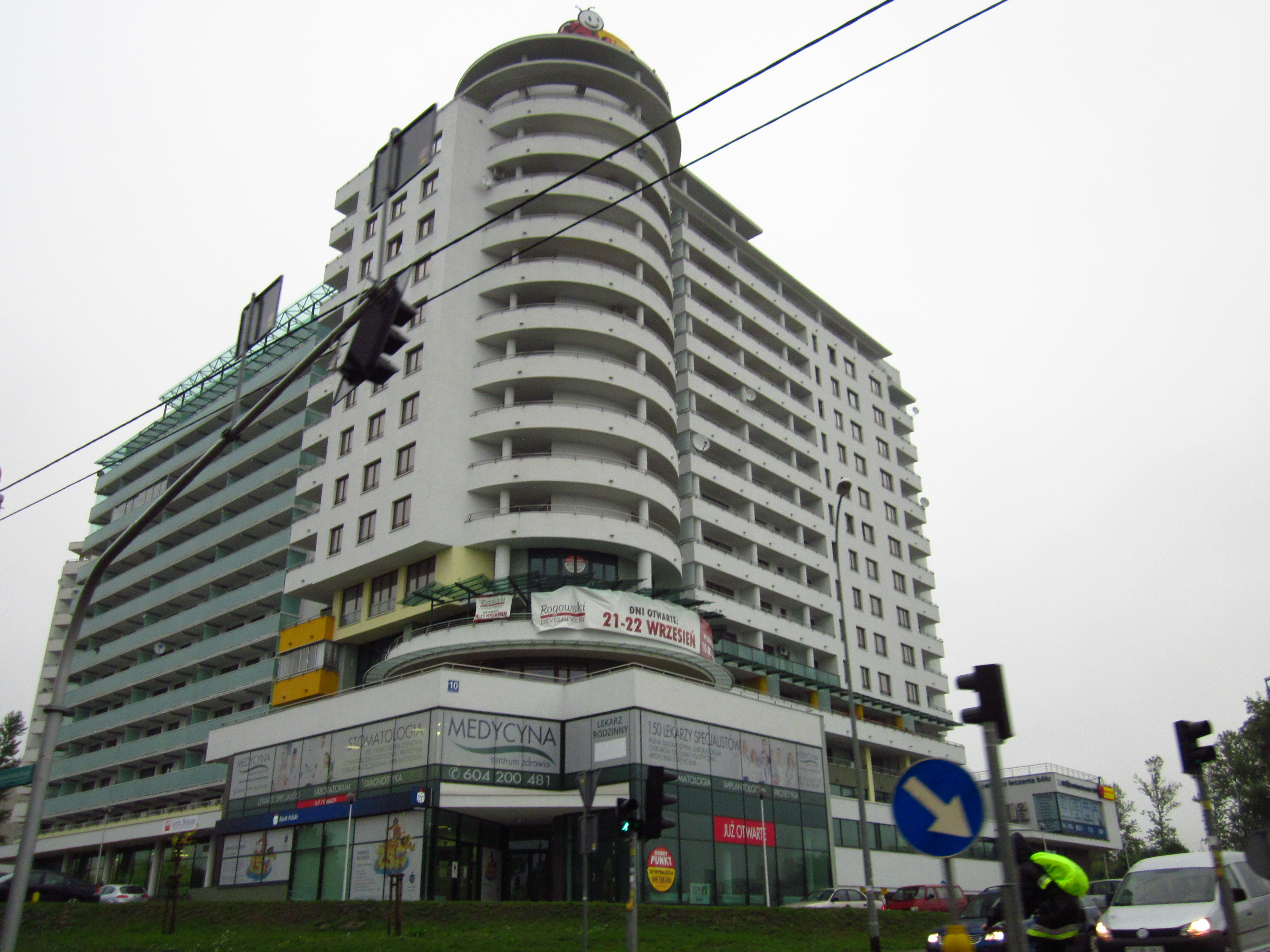 Skyscrapers, apartment buildings in Białystok, 10 Tysiąclecia Street.